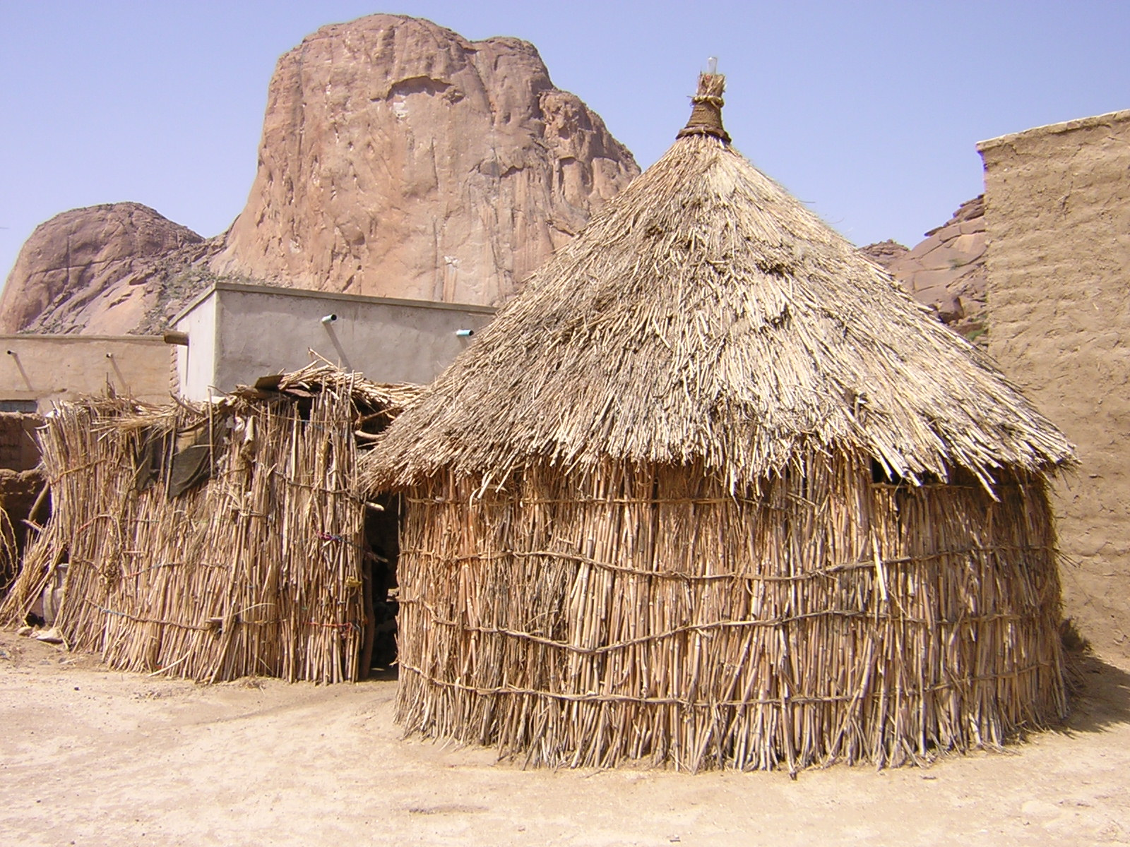 Thatched hut house in Toteil near Kassala and Taka Mountains, eastern Sudan.